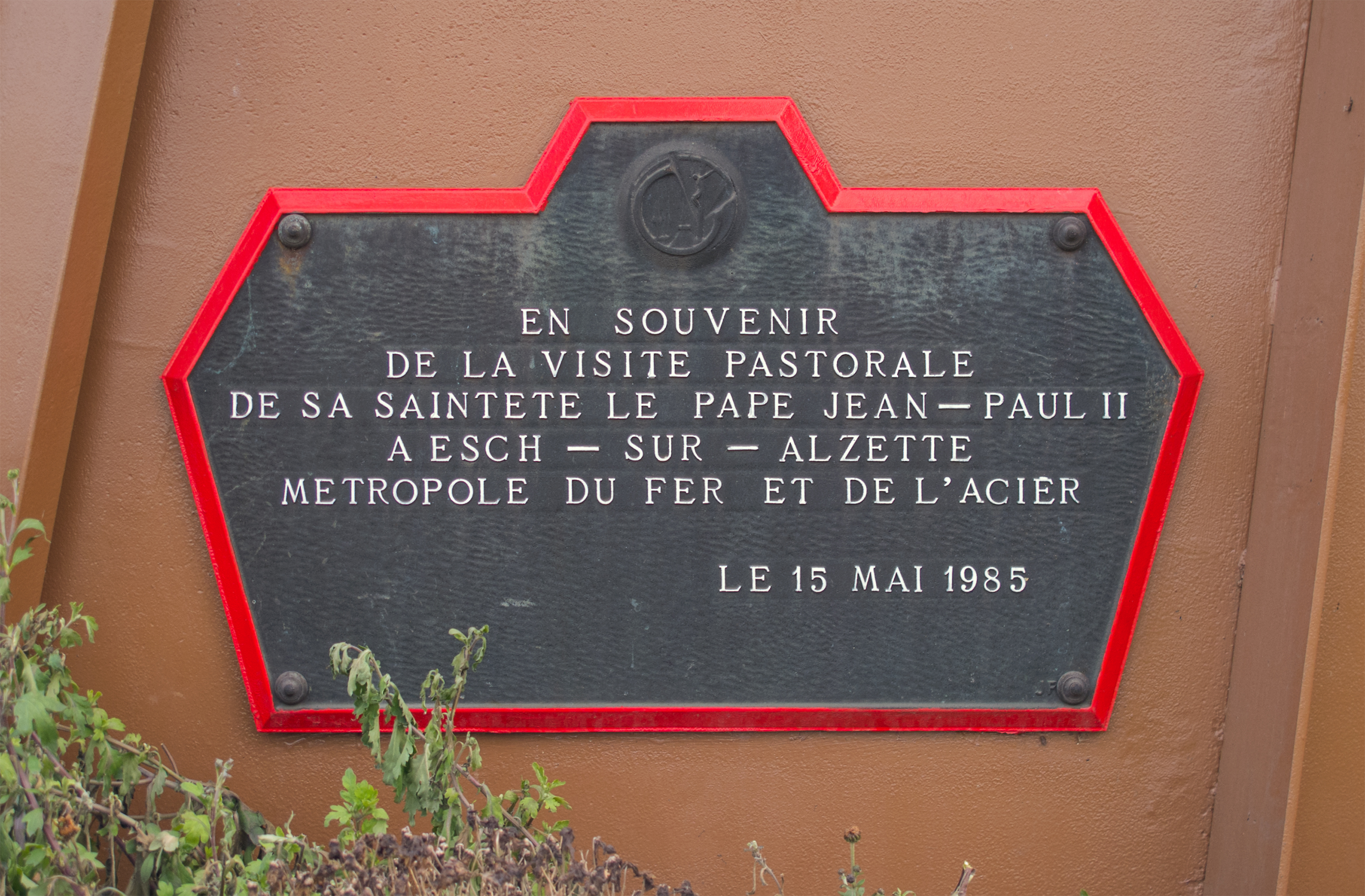 Plaque on the memorial for the visit of pope Jean-Paul II in Esch-sur-Alzette on May 15, 1985